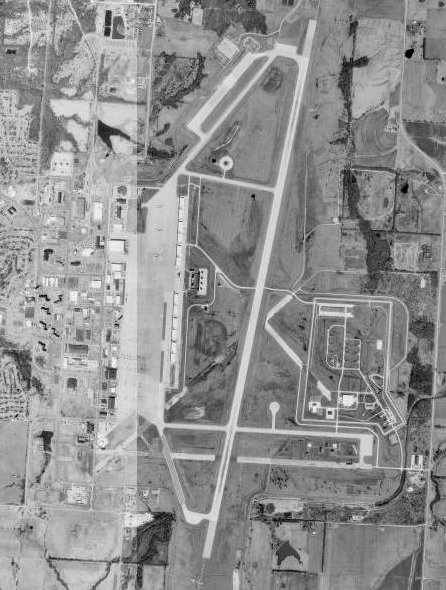 Whiteman AFB MO